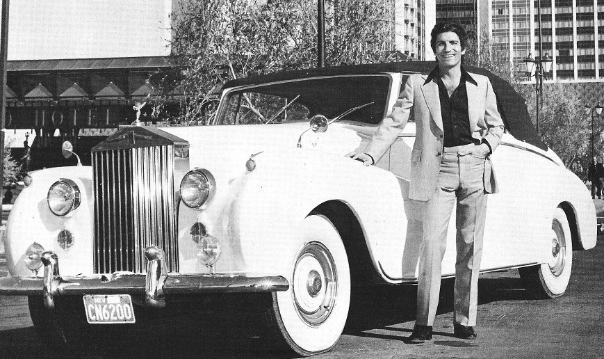 1974 Publicity Photo in Sergio Franchi Souvenir Brochure